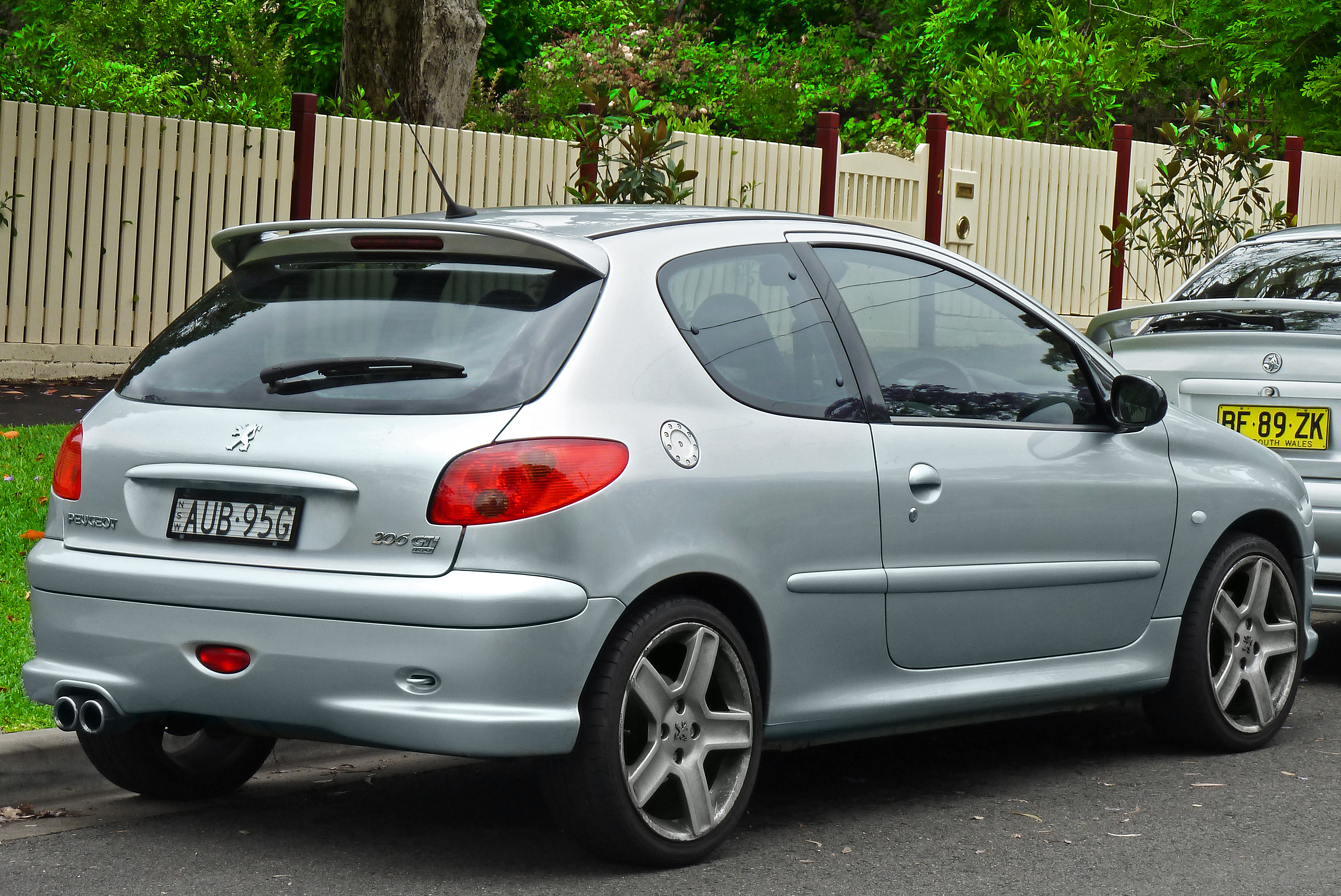 2005 Peugeot 206 (T1) GTi 180 3-door hatchback. Photographed in Gordon, New South Wales, Australia.